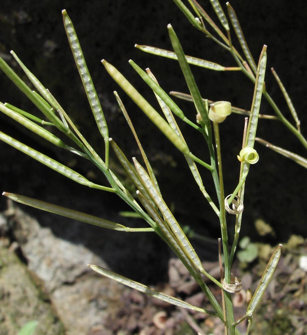 Cardamine impatiens pods, partly sprung open, in Cologne, Germany. Plant was growing on a small wall in the inner city.